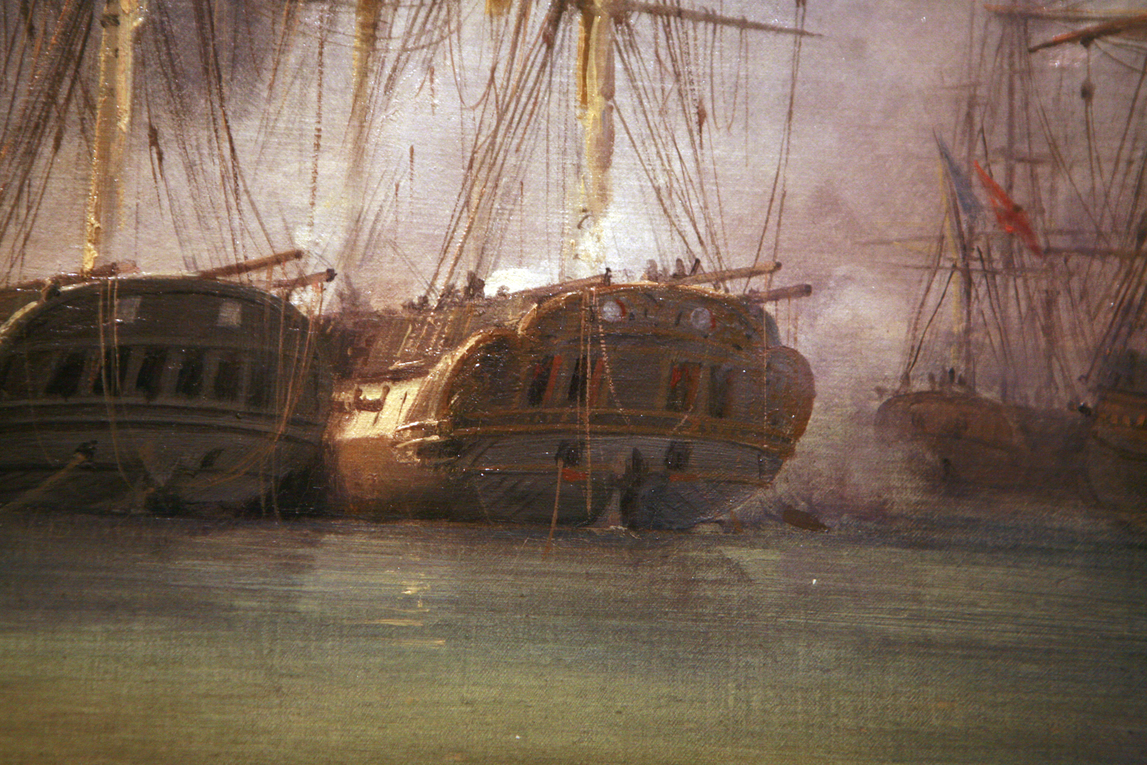 Detail of Battle of Grand Port: From left to right: French frigate Bellone, French frigate Minerve, Victor (background) and part of CeylonOil on canvasCollection Musée national de la Marine Native nameMusée national de la MarineLocationParisCoordinates48° 51′ 43″ N, 2° 17′ 15″ E Established1827Web page control : Q1286709 VIAF: 19144648200974718522 ISNI: 0000 0001 2259 2914 LCCN: n50055356 Museofile: M5026 WorldCat institution QS:P195,Q1286709Source/Photographer Rama